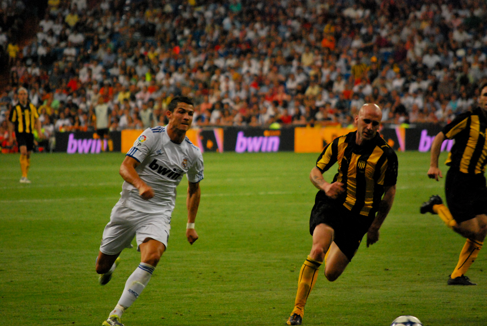 Guillermo Rodríguez (Peñarol) and Cristiano Ronaldo (Real Madrid) trying to get the ball.